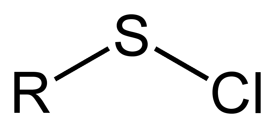 General structure of sulfenyl chlorides, RSCl. Structure drawn in ChemBioDraw Ultra 12.0.